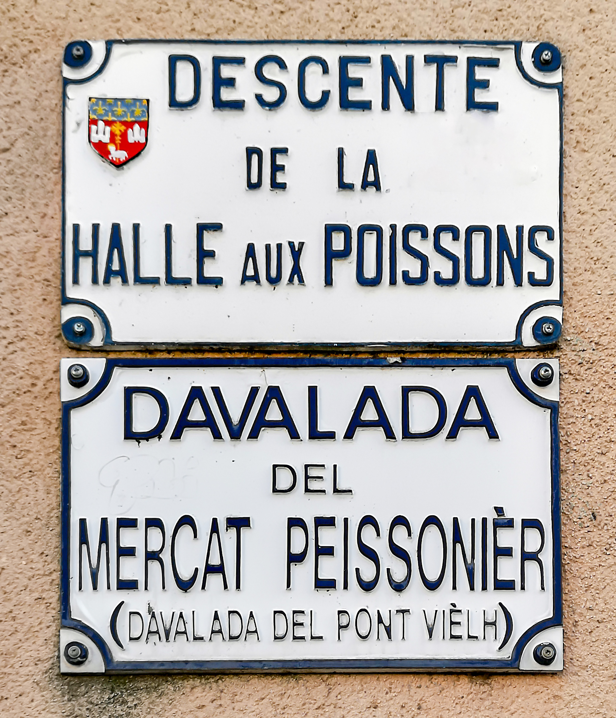 Descente de la Halle-aux-Poissons, in Toulouse - Street name sign. They have the particularity of being: in French and Occitan.